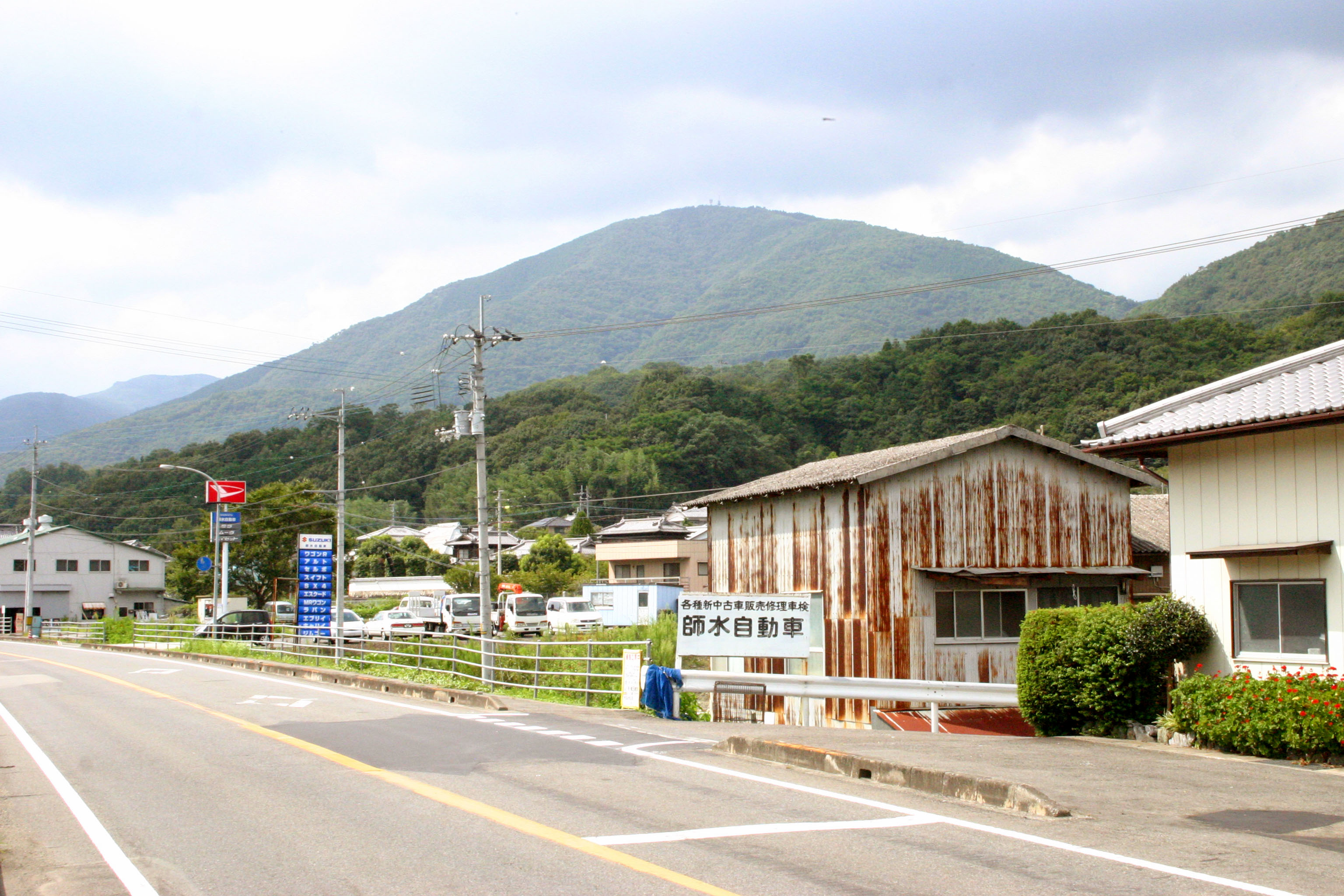 Mt. Santō in Mima-shi, Tokushima-ken